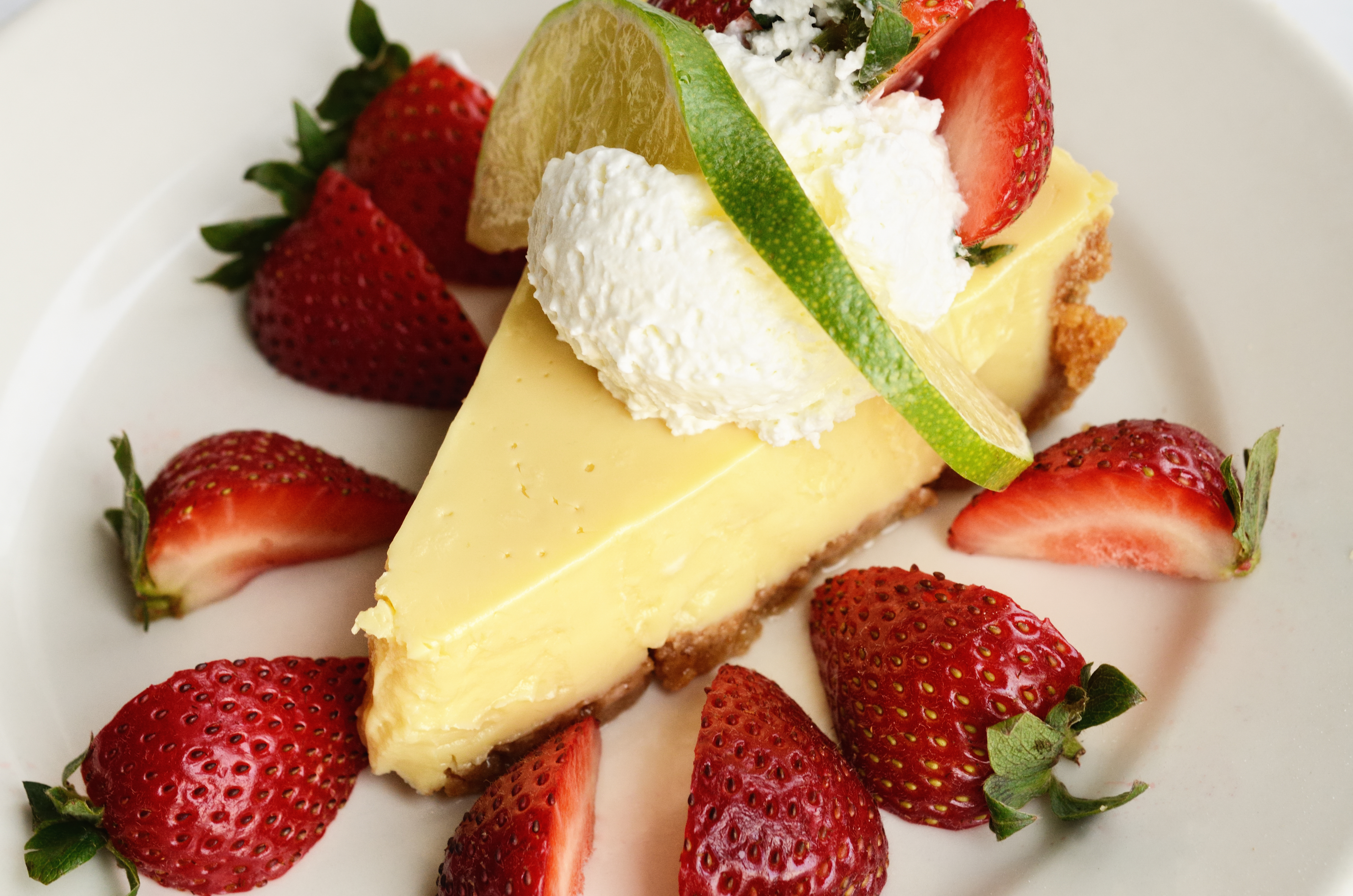 Coastal Kitchen made the pie with extra strawberries.